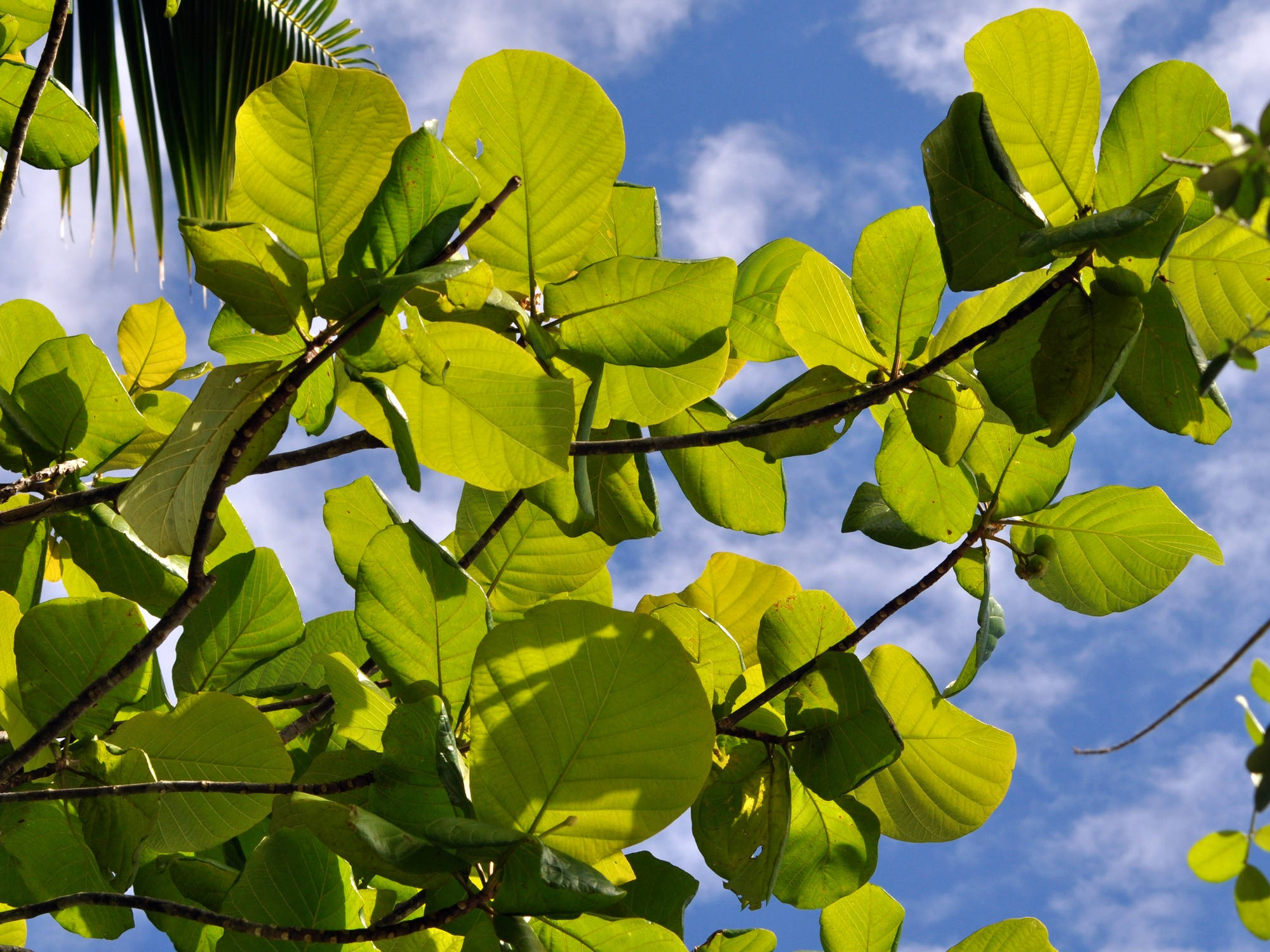 Guettarda speciosa branch. From Raja Ampat, West Papua, Indonesia